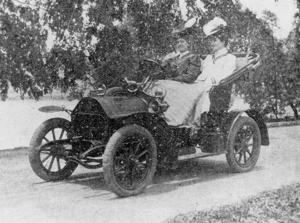 Creator: Unidentified Location: Queensland, Australia Description: Eleanor Constance Greenham was born on 15 April 1874 in Ipswich, Queensland. She was the daughter of John and Eleanor (nee Johnstone) Greenham. Eleanor attended Ipswich Central Girls' and Infants' School for her primary education and in 1889 and 1890 she attended the Brisbane Girls' Grammar School. In 1892 she was one of the first pupils at the newly opened Ipswich Girls' Grammar School. Eleanor enrolled in the Faculty of Arts at the University of Sydney in 1895, in preparation for studying for a degree in medicine. She graduated in March 1901 with a Bachelor of Medicine, Master of Surgery, and became the first Queensland-born woman to practice medicine. In July 1901 she was appointed Resident Medical Officer at the Lady Bowen Hospital on Wickham Terrace, Brisbane. Eleanor was, however, intent on private practice, and, when her year's appointment at the Lady Bowen Hospital came to an end, she took rooms in City Chambers at the corner of Queen and Edward Streets where she gradually built up a successful practice among the business girls of Brisbane. Eleanor never married but was a generous supporter of her extended family. She was also one of the first women in Queensland to drive a car. In her 80th year she retired to 85 Oxlade Drive at New Farm but continued to see some of her old patients. She died on 31 December 1957 of congestive cardiac failure. Eleanor Greenham was a pioneer and by her persistence and expertise overcame many difficulties and opposition. She helped to sweep away the prejudice against medical women in the years preceding World War I. (Information taken from: Lesley M. Williams, A pioneer not a traditionalist: the life and work of Dr. Eleanor Greenham, Royal Historical Society of Queensland Journal, Vol. XV, No. 1, February 1993, p.26) View this page at the State Library of Queensland: Information about State Library of Queensland’s collection